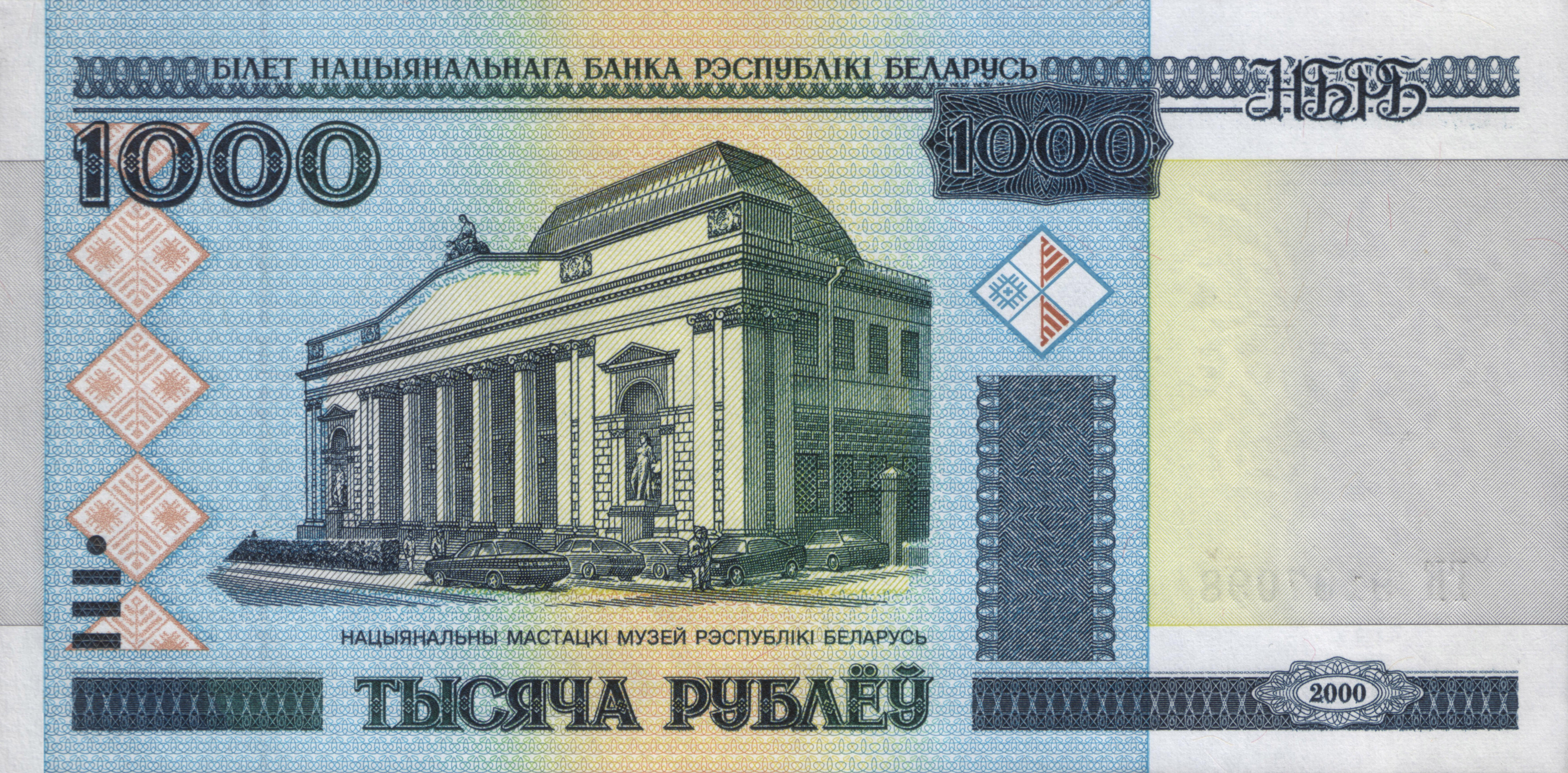 1000 roubles of Belarus (2000)